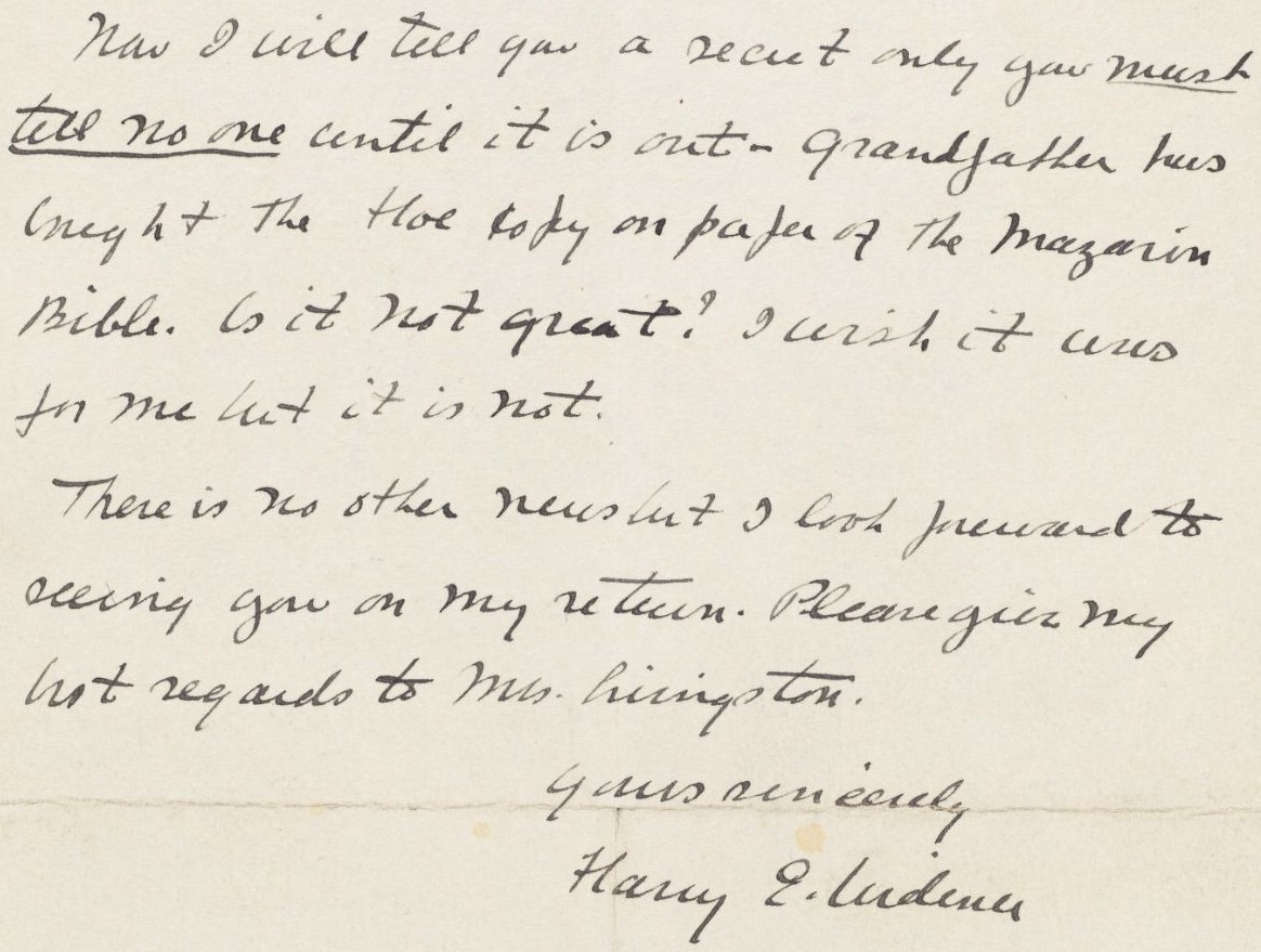 Letter to Luther S. Livingston mentioning Widener's upcoming trip to England (and planned return in the Titanic), and Widener's grandfather's recent purchase of a Gutenberg bible. Page 2 of 2. Cropped to show only final two paragraphs and signature.